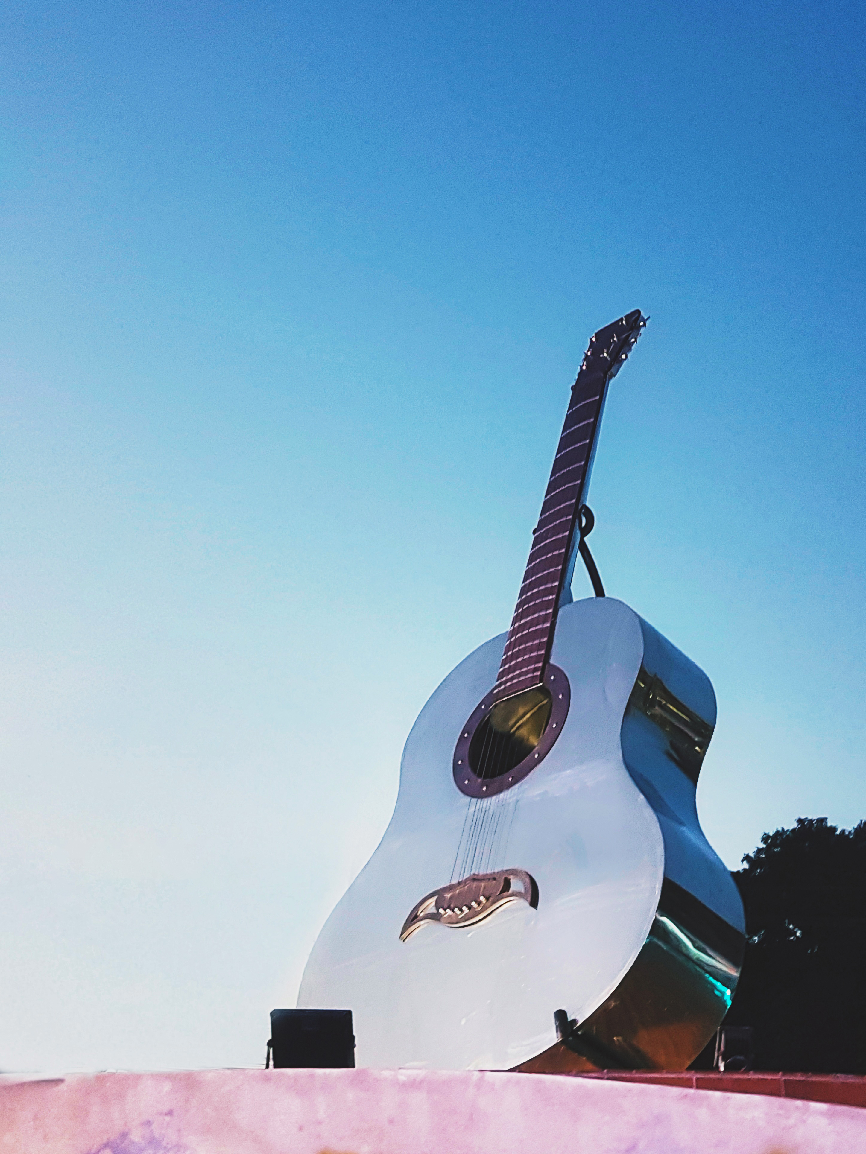 The Rupali Guitar is an iron and steel made sculpture which was created in memory of Ayub Bachchu, a legendary singer from Bangladesh and founder of Bangladeshi band LRB.